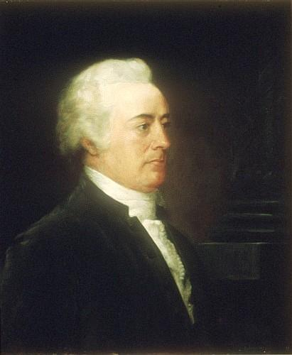 A painting of John Rutledge by Robert Hinckley (based on a painting by John Trumbull).